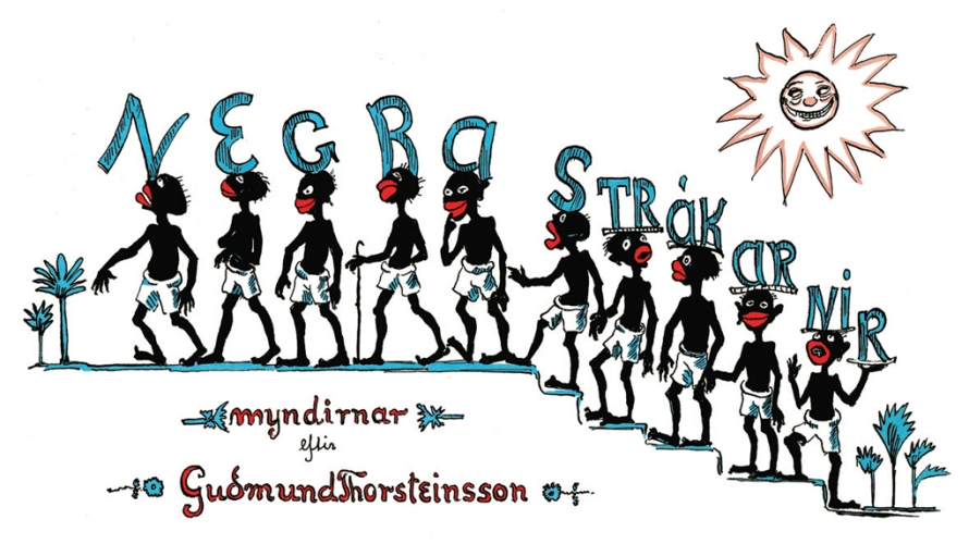 Cover of Negrastrákarnir, an Icelandic version of the song Ten Little Indians by Winner, first published in Reykjavik in 1922 with a rendering of the song by Gunnar Egilsson and illustrations by Guðmundur Thorsteinsson. This was one of the first illustrated children's books published in Icelandic.